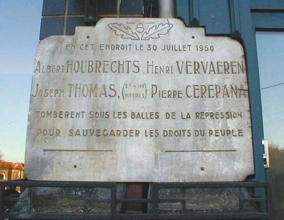 Memorial placque in Grâce-Berleur with the names of the four people who died under fire of gendarmery, during the political meeting of July, 30, 1950, against the coming back of King Léopold III on the Belgian throne (the so-called "Question Royale" or "Koningskwestie"). Walon: plake a Gråce-Bierleu avou les nos des cwate djins touwêyes tins d' on metingue disconte del rivnowe do Rwè Yopôl III (portrait saetchî pa L. Mahin).